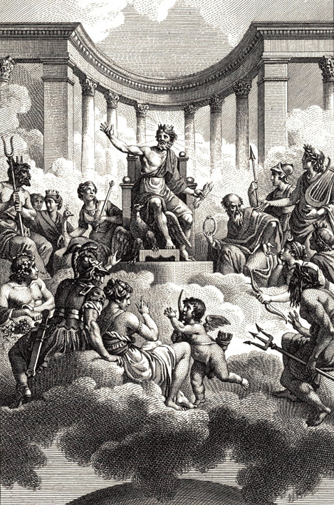 The Olympian gods. Depicted clockwise from top center are: Zeus, Hephaestus, Athena, Apollo, Hermes, Artemis, Poseidon, Eros, Aphrodite, Ares, Dionysus, Hades, Hestia, Demeter, Hera.